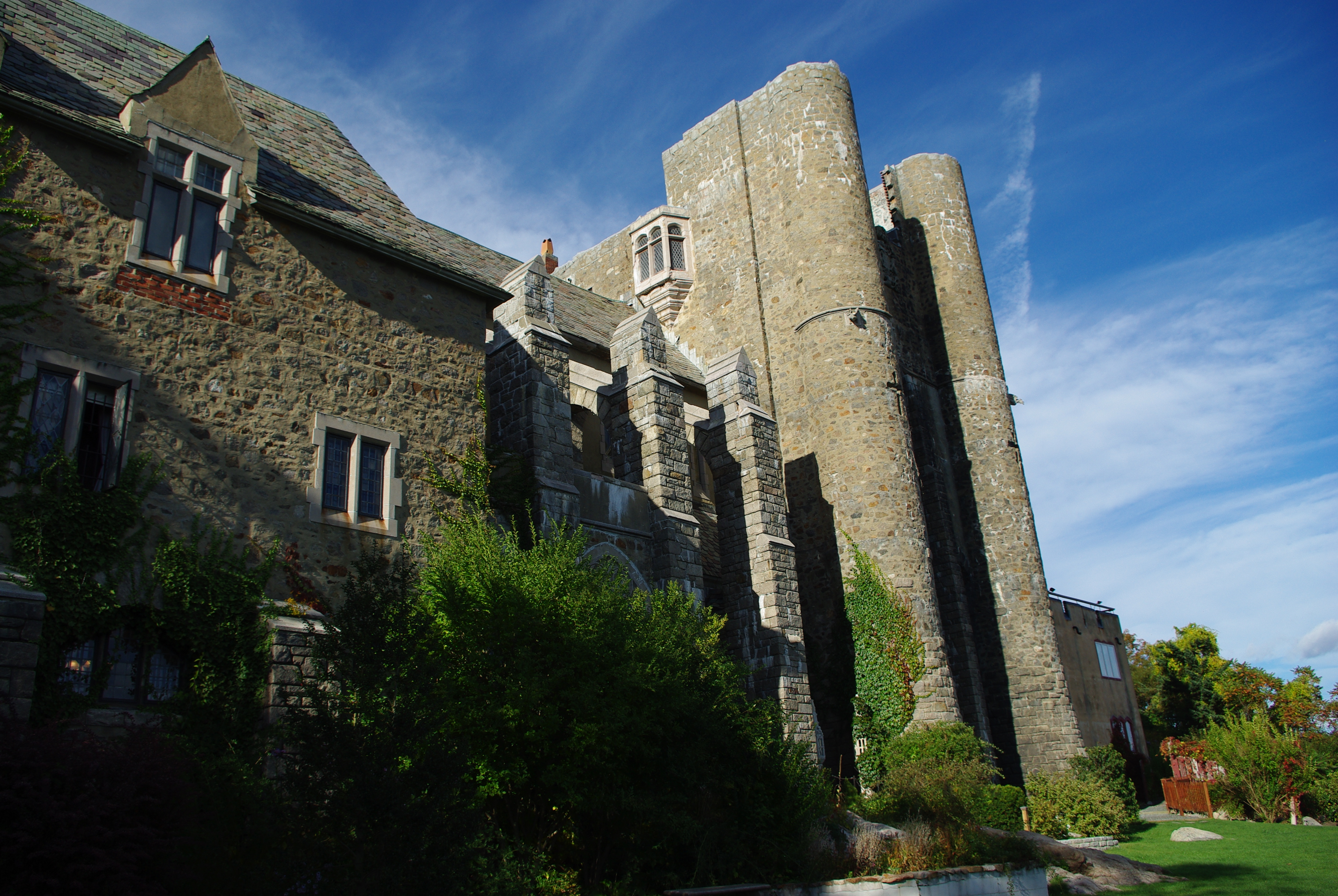 This is the back of the Hammond Castle in Gloucester, MA.